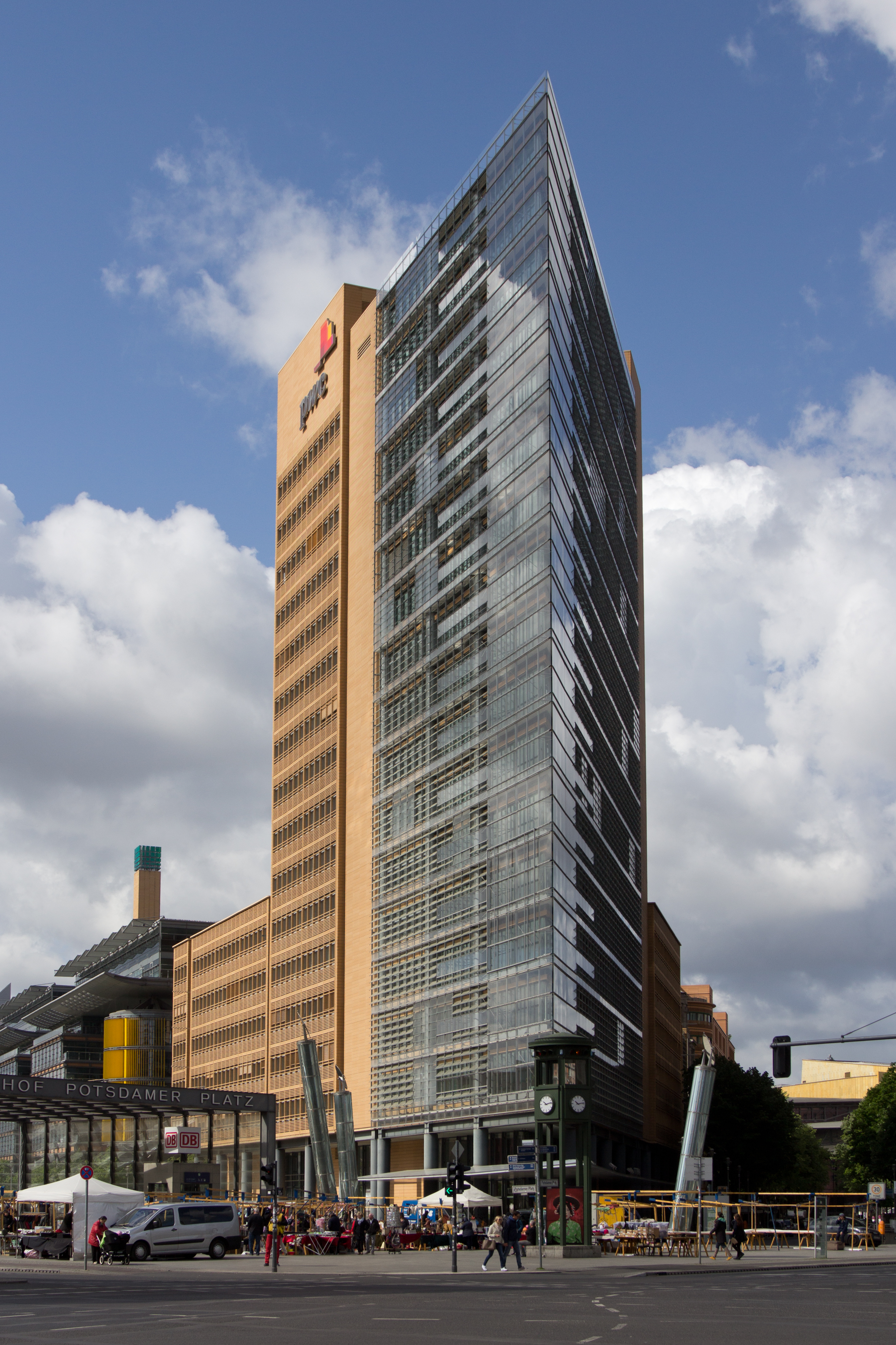 PricewaterhouseCoopers building in Berlin, Germany.